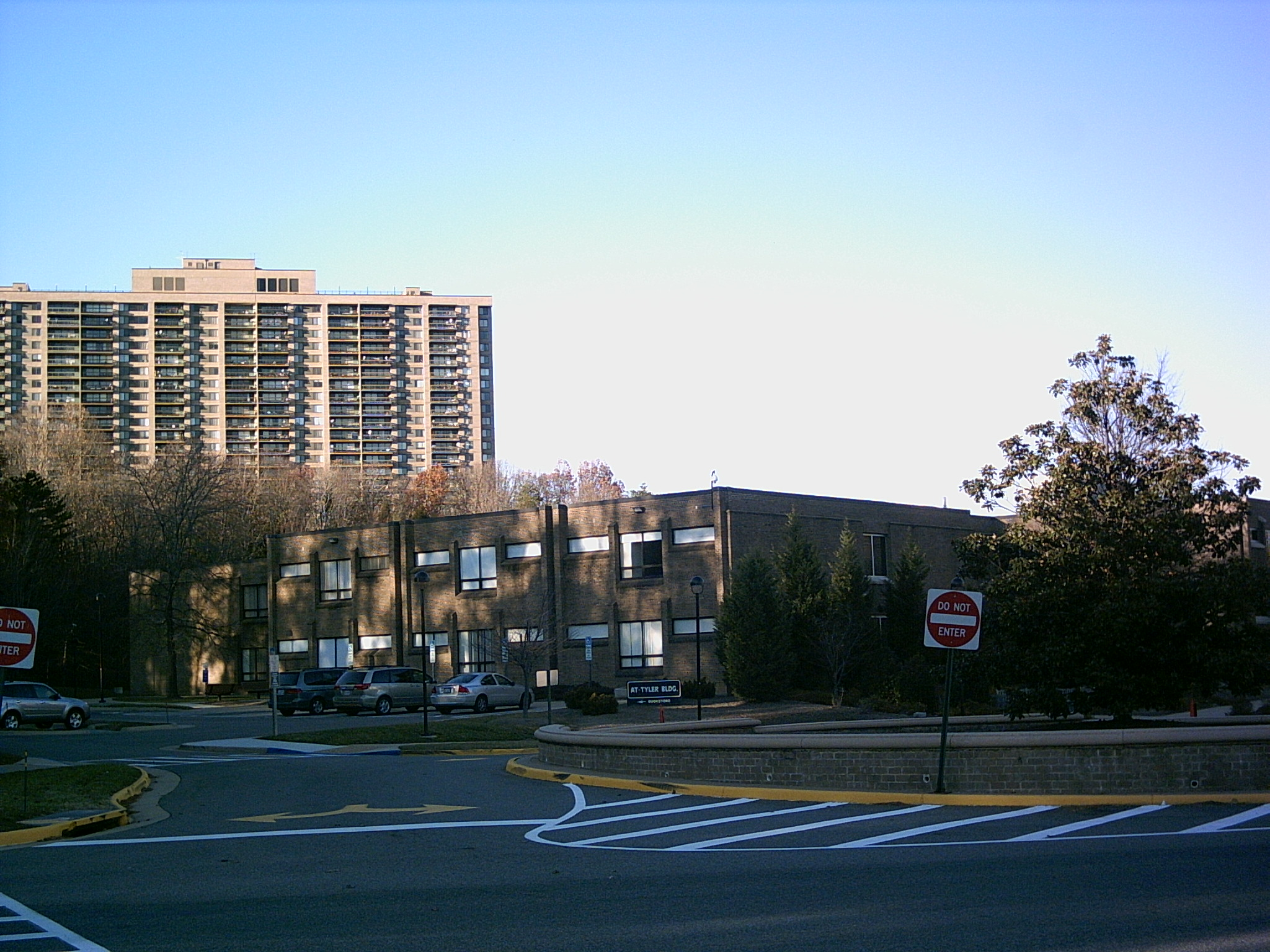 Image taken by me for Wikipedia